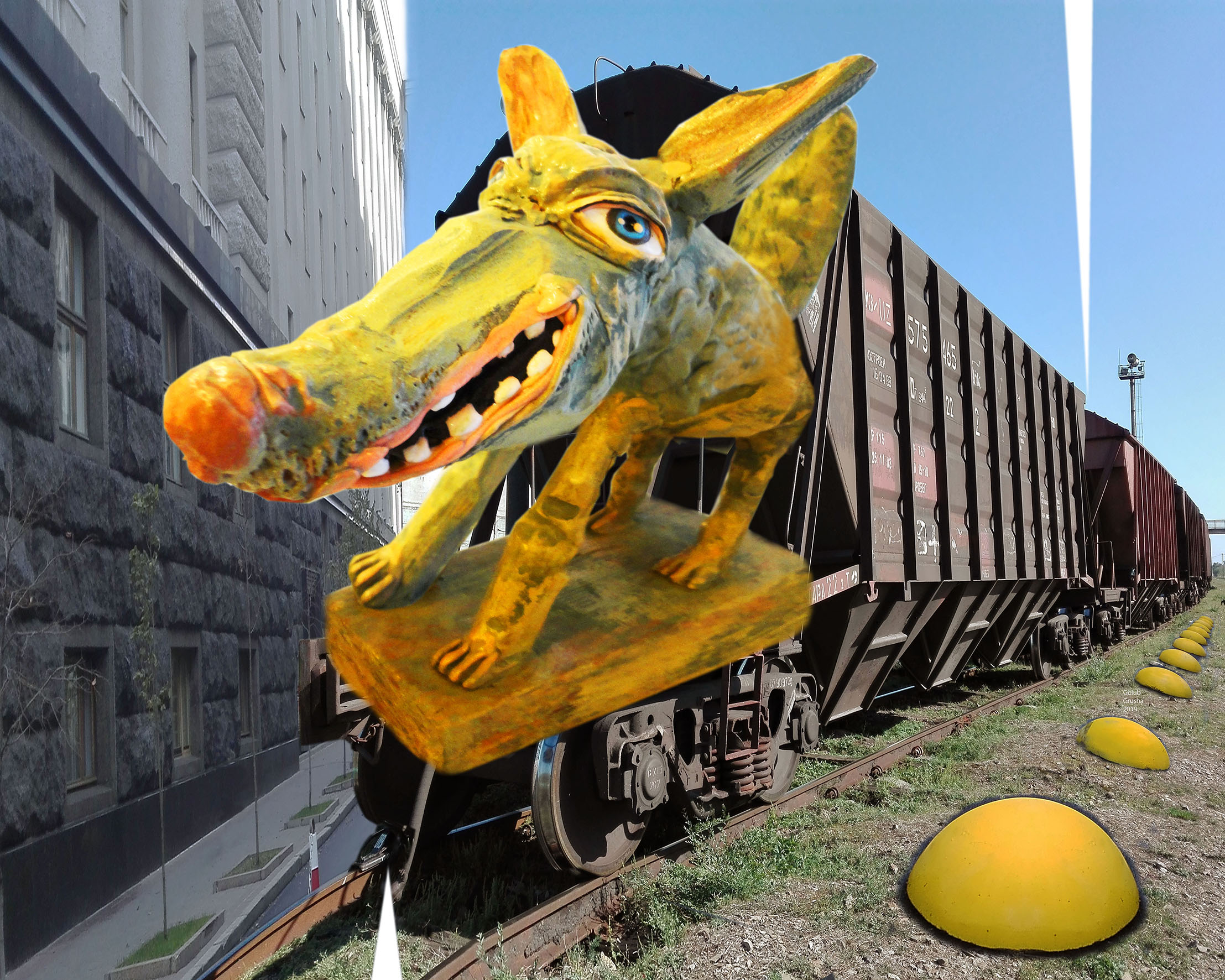 Golub Grusha Series 2_Digital print_ 2019